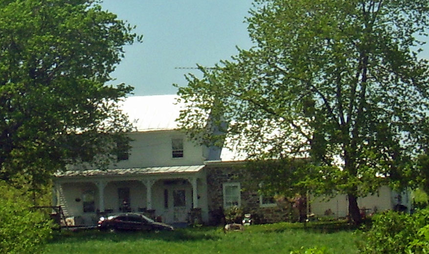 Photographed by Daniel Case 2007-05-12